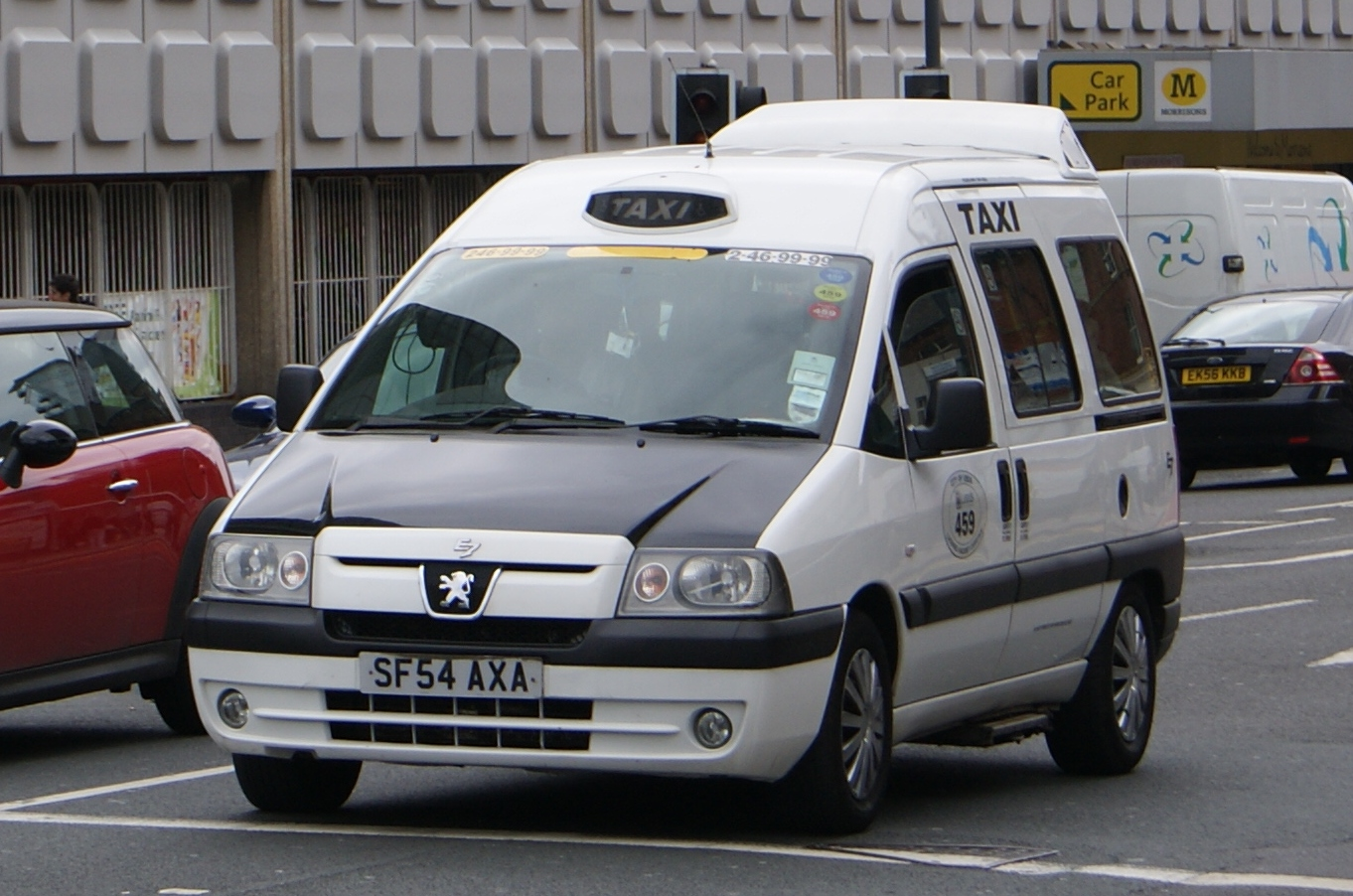 A taxi (hackney carriage) on Woodhouse Lane in Leeds. Taken on the afternoon of Tuesday the 4th of May 2010.